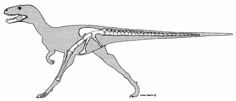 Reconstrucuon of Bagaraatan ostromi gen. et sp. n. from the ?mid-Maastrichtian Nemegt Formation of Nemegt, Mongolia.